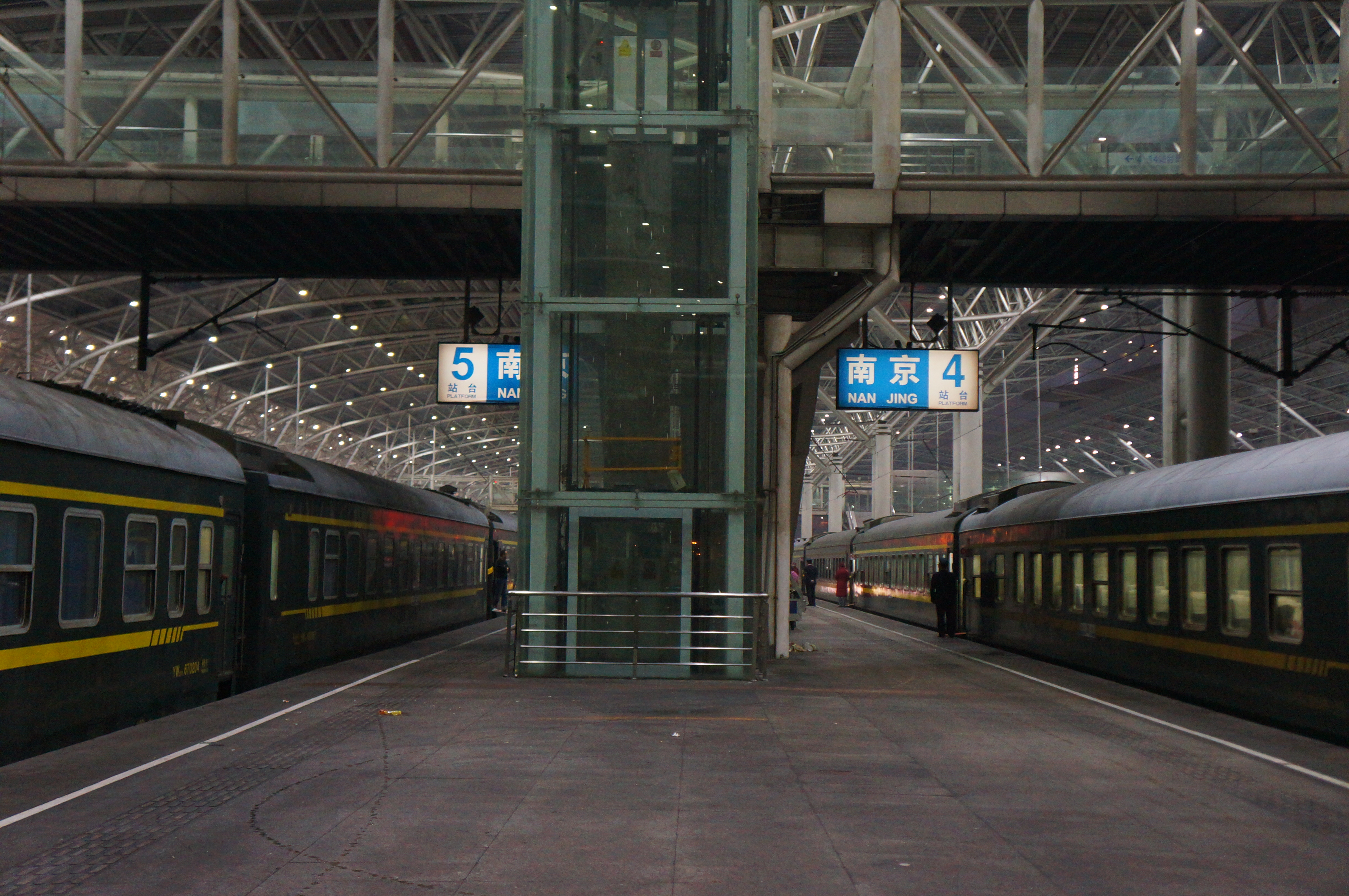 201812 Coaches of T110 and T66 at Nanjing Station. A world of (green) 25K coaches...